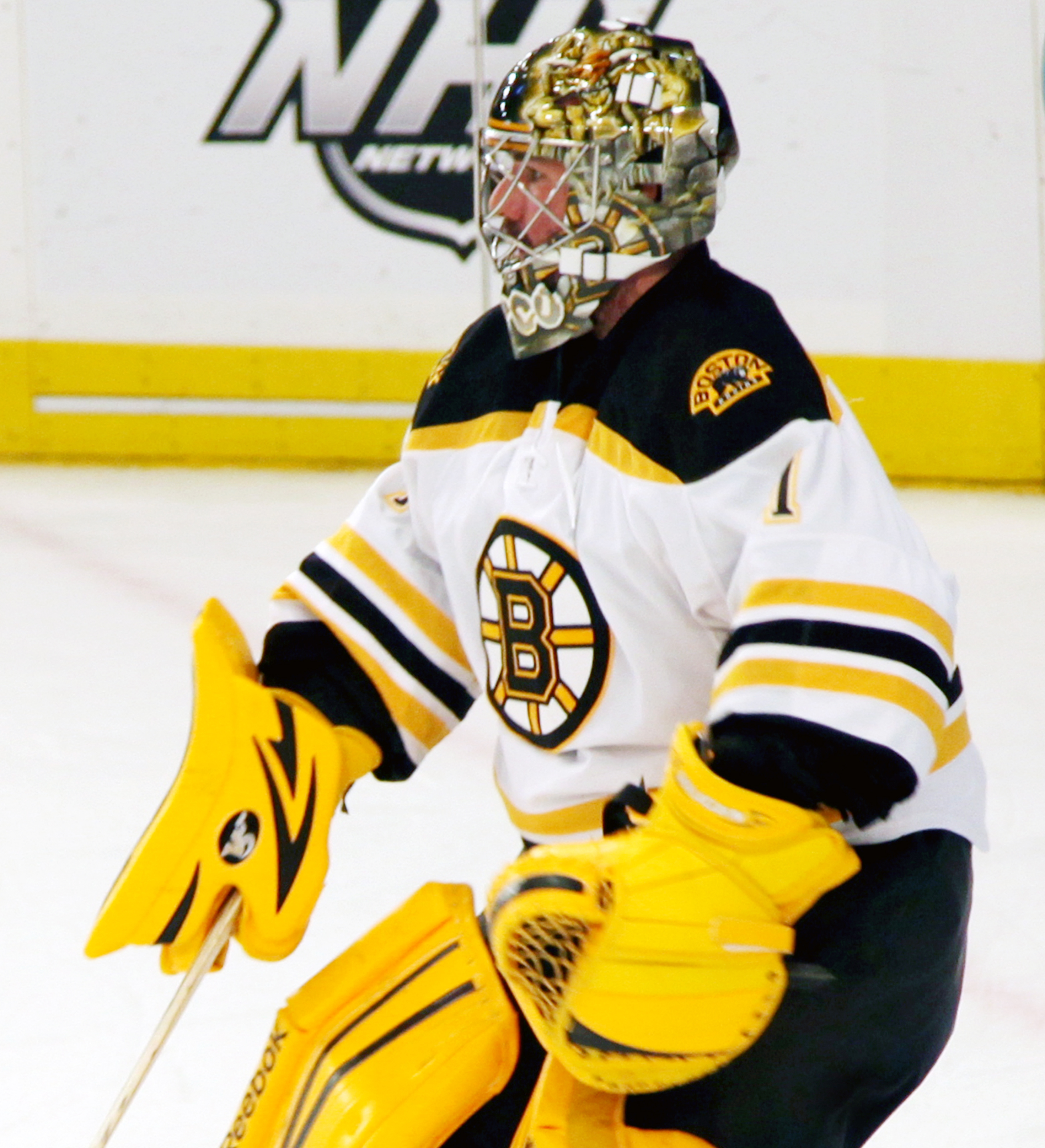 Marty Turco